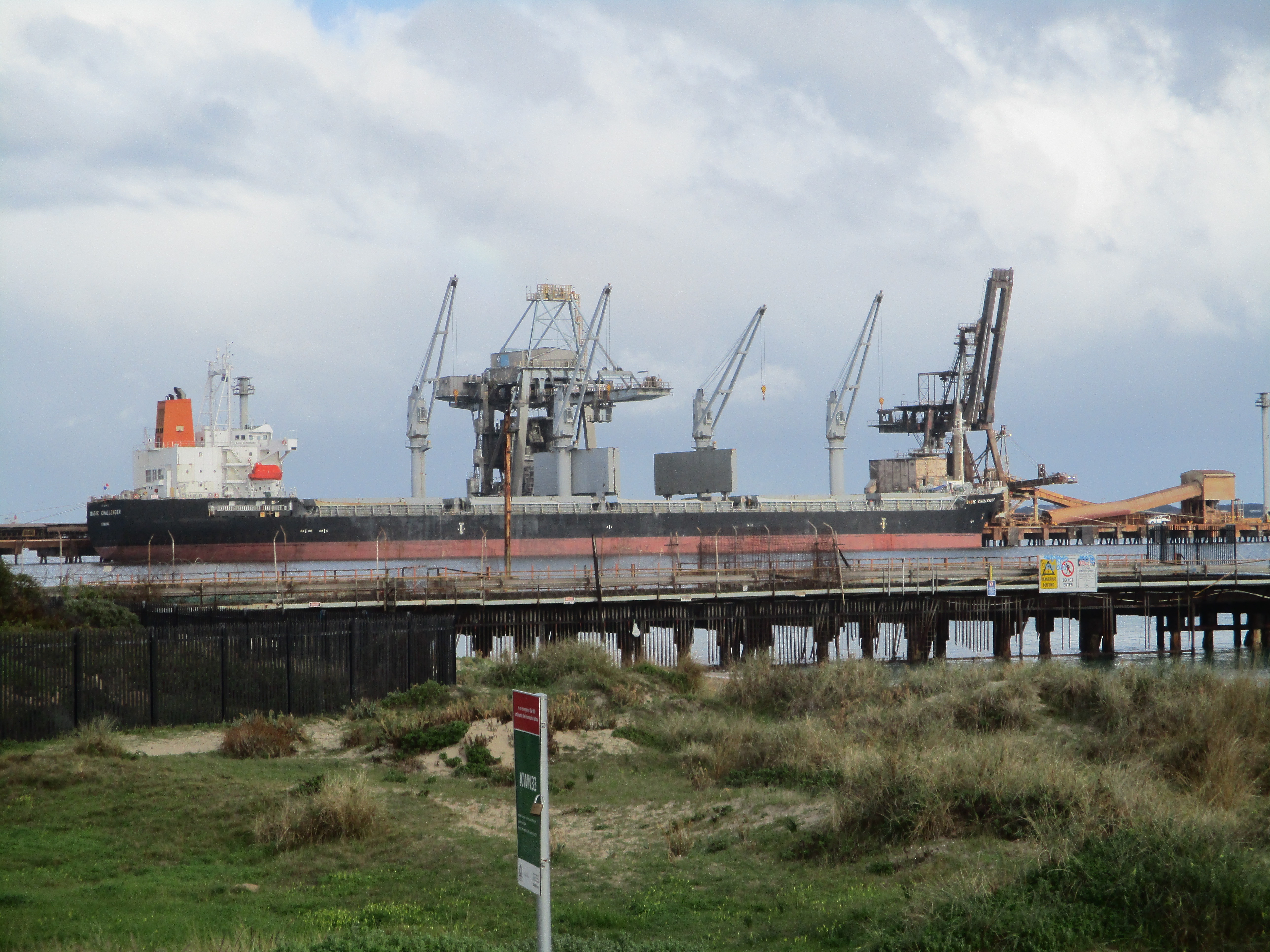 The Kwinana Bulk Jetty, Berth No. 2, with the bulk carrier Basic Challenger at Berth.